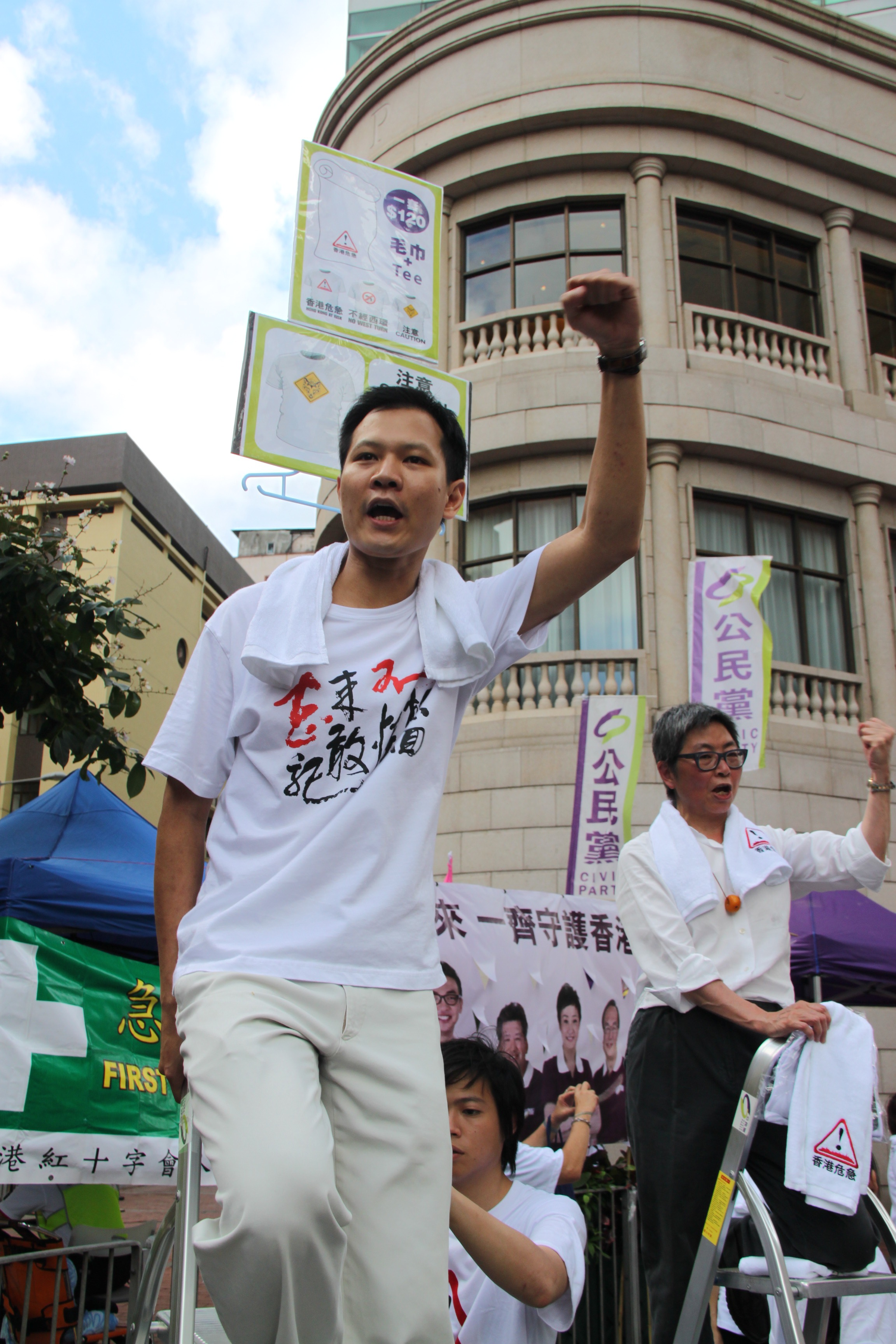 Dennis Kwok at Causeway Bay, cheering on the annual July 1 March that day